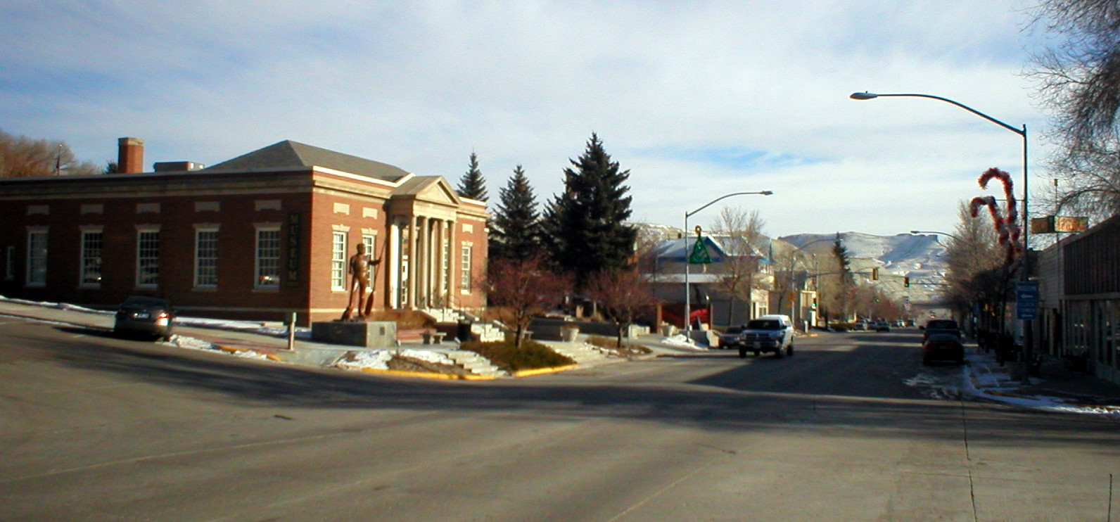 Downtown Green River, across from the museum.